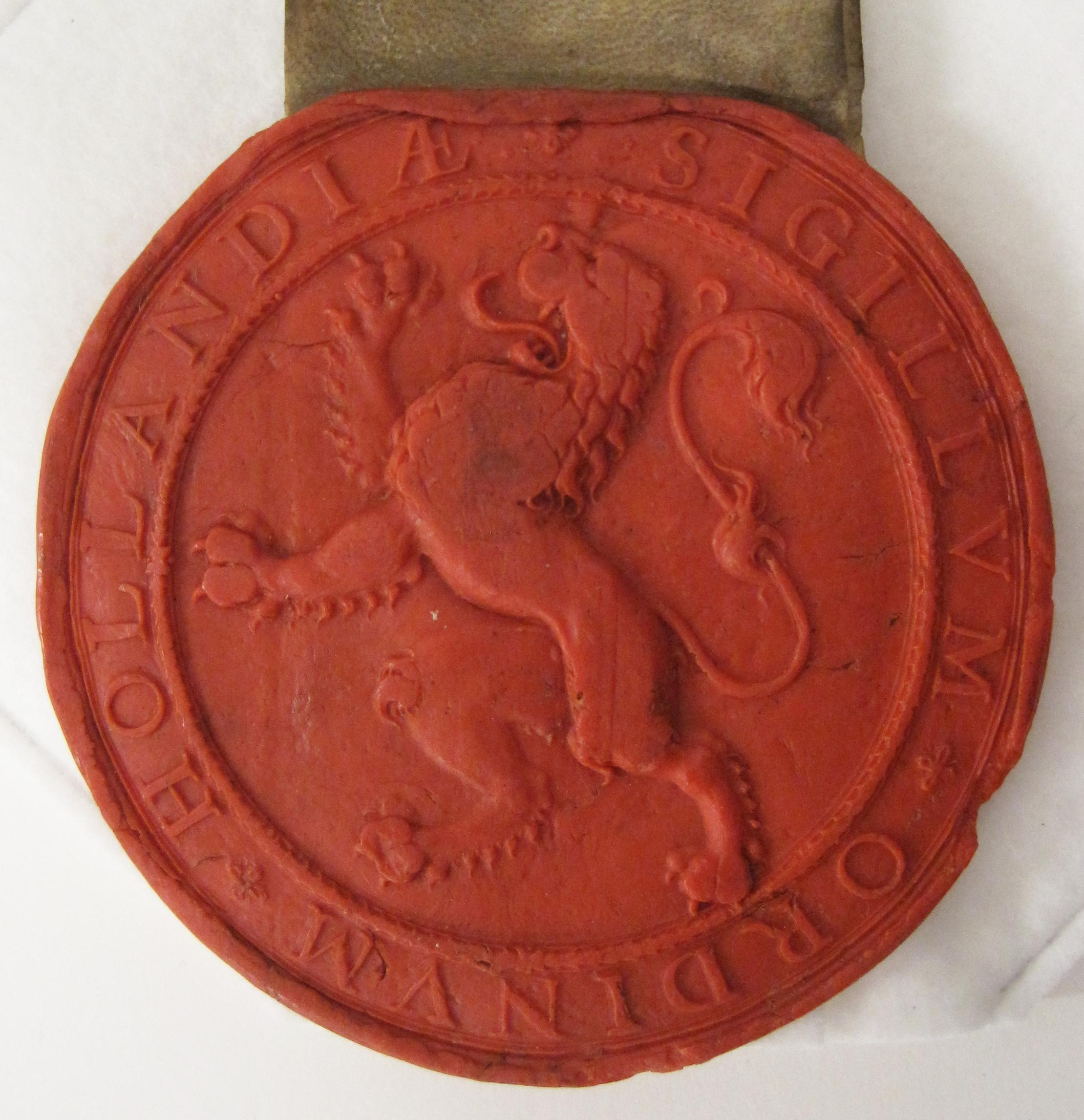 Great Seal of the States of Holland and West-Frisia